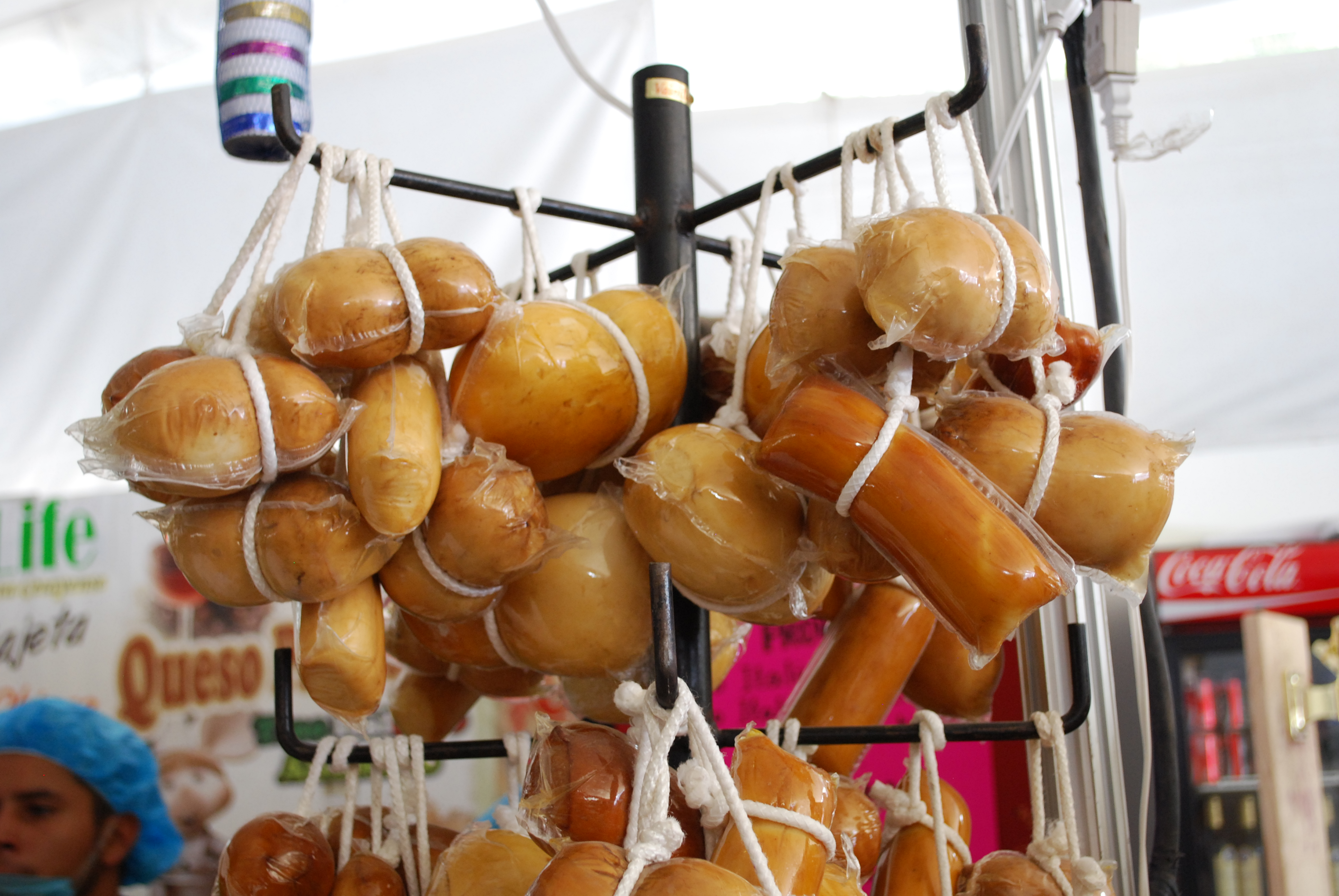 Display of smoked provolone at the Feria del Queso y el Vino in Tequisquiapan, Queretaro, Mexico